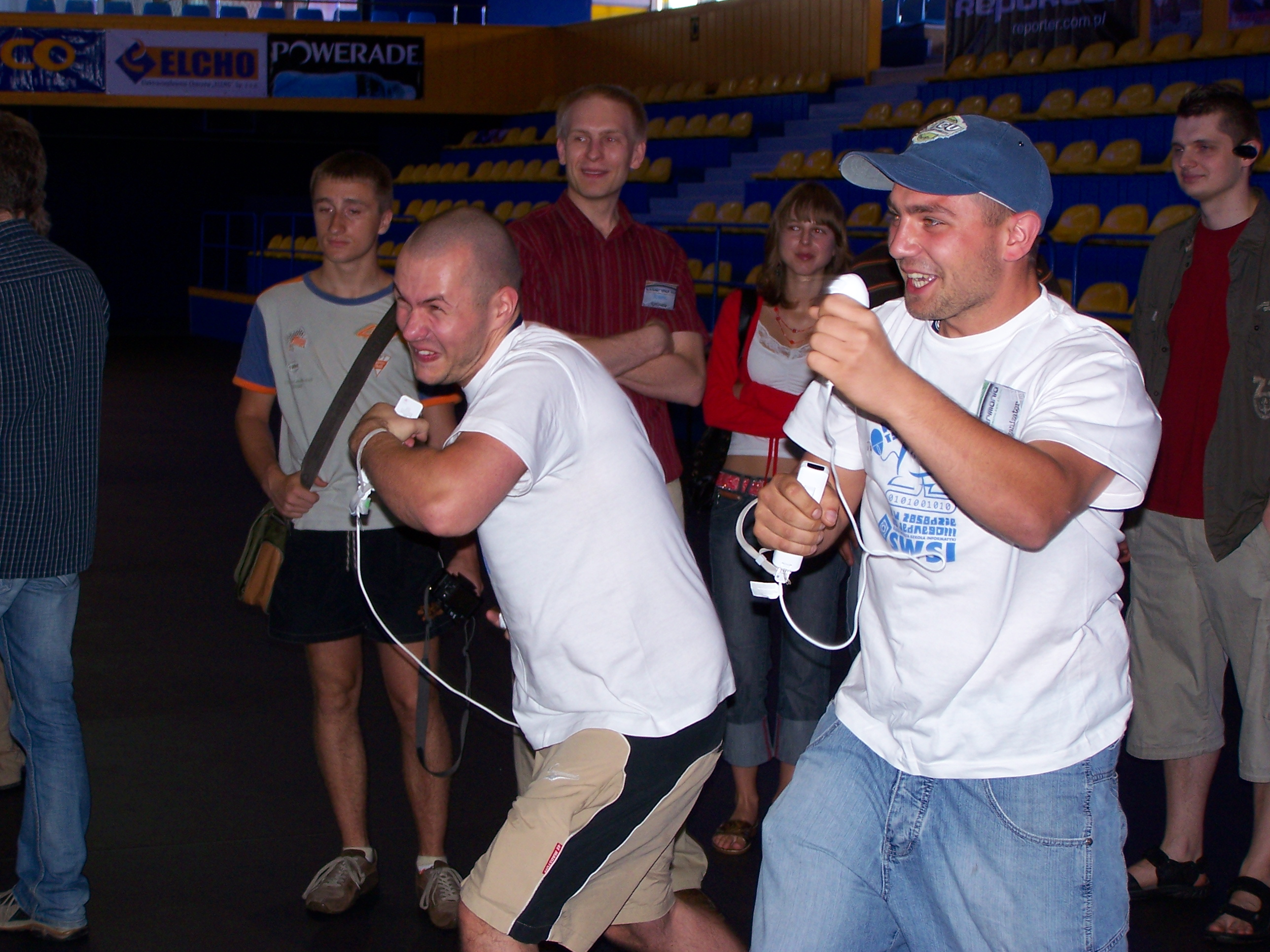 Cybermania.